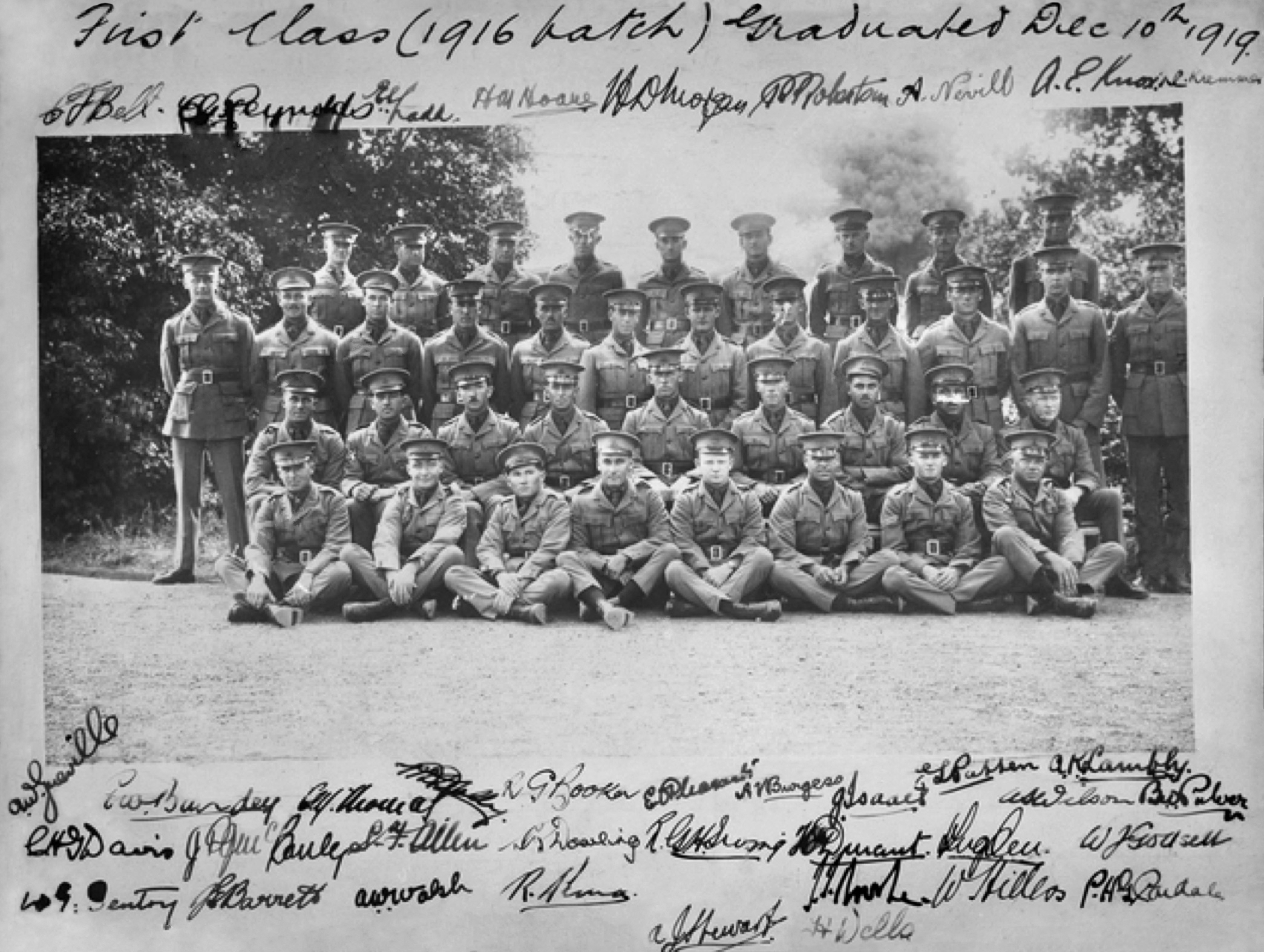 Duntroon, ACT. Group portrait of Duntroon Military Cadets First Class 1919 who entered the Royal Military College (RMC) in 1916 and graduated 1919-12-10. Signatures round the border: C.F. Bell, C.G. Reynolds, E.C. Ladd, H.M. Hoare, H.D. Morgan, P.P. Robertson, A. Nevill, A.E. Knox, R.C. Kremmer, A.W. Greville, E.W. Bundey, C.M. Thomas, R.G. Booker, E. Pleasant, A.V. Burgess, G. Isaacs, G. Patten, A.K. Lambly, C.H.G. Davis, J.D.J. Mccauley, S.F. Allen, S.R. Dowling, R.G.H. Irving, H.F. Durant, .. Svgden, W.J. Godsell, W.G. Gentry, J.E. Barrett, A.W. Walsh, R. King, A.J. Stewart, H. Wells, T.J. Bourke, W. Hilless, P.H.G. Cardale.